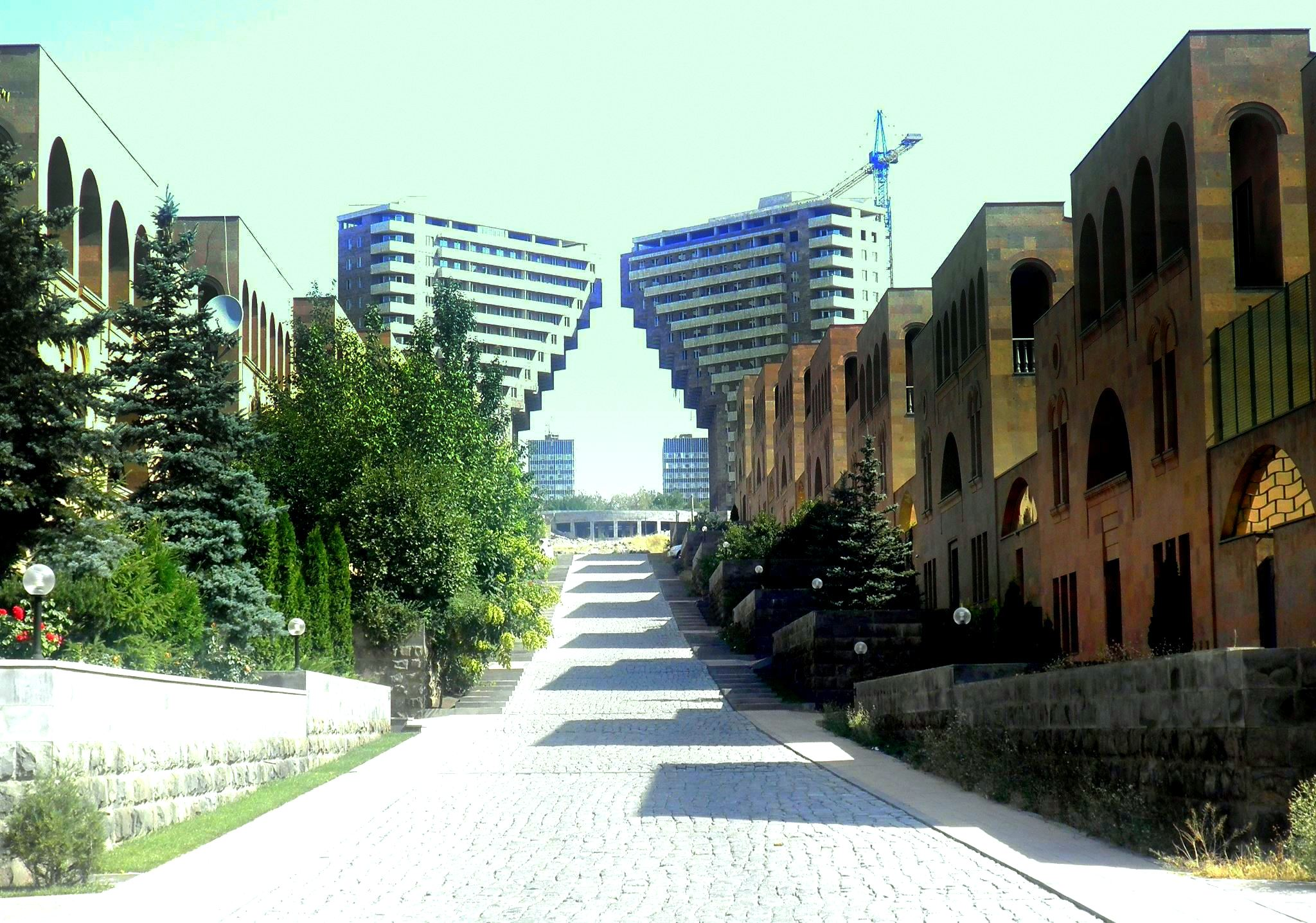 Northern Ray (Hyusisayin Jarakayt), Arabkir community, Yerevan, Armenia.